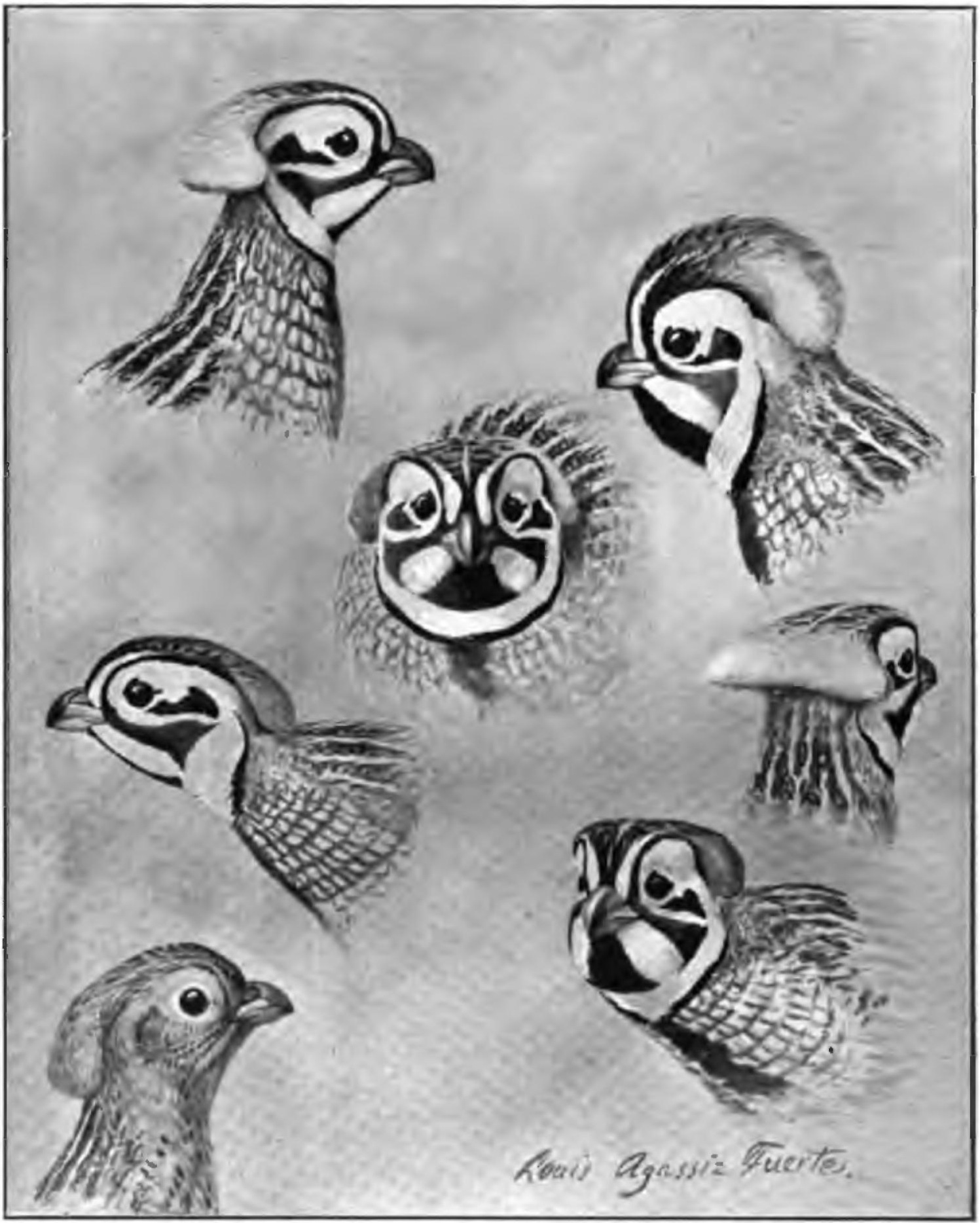 Montezuma Quail drawing by Louis Agassiz Fuertes from The Condor